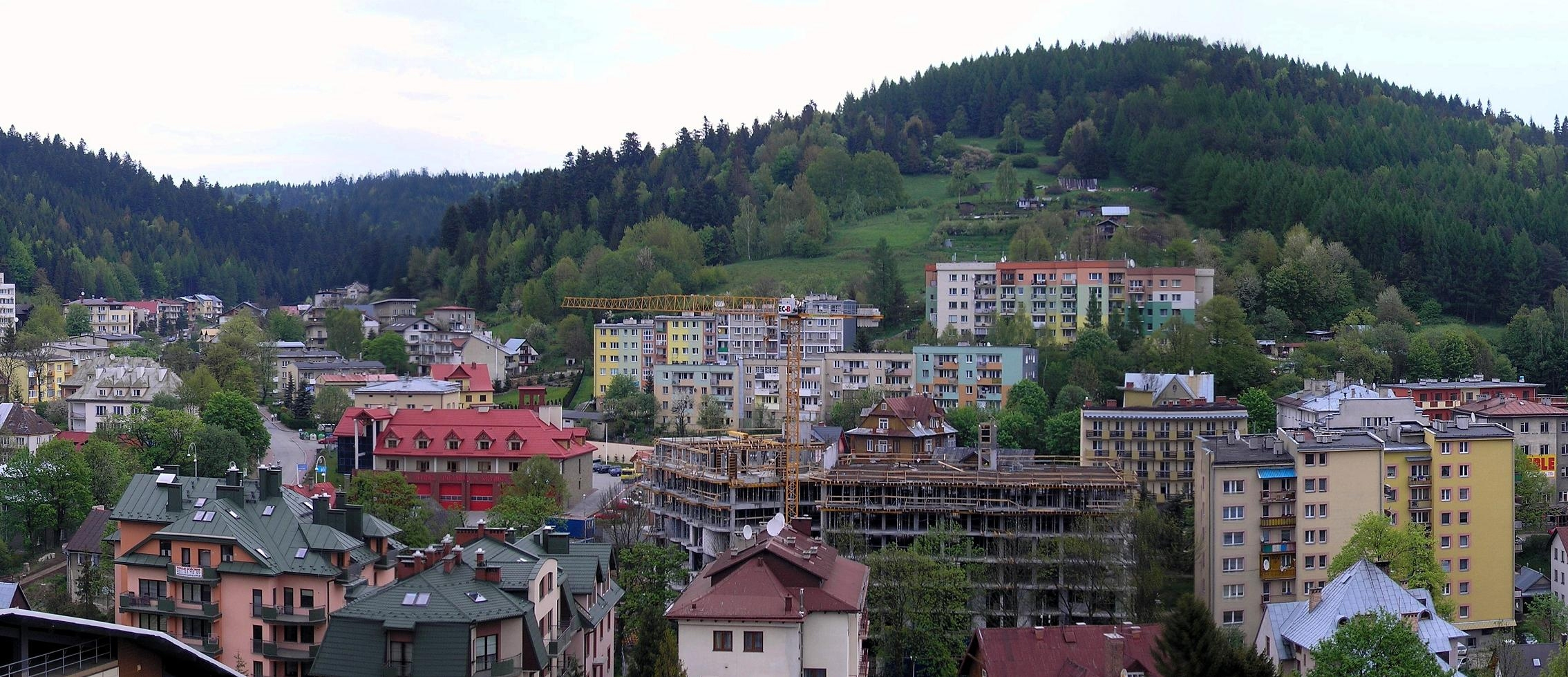 Poland, Krynica Gorska.